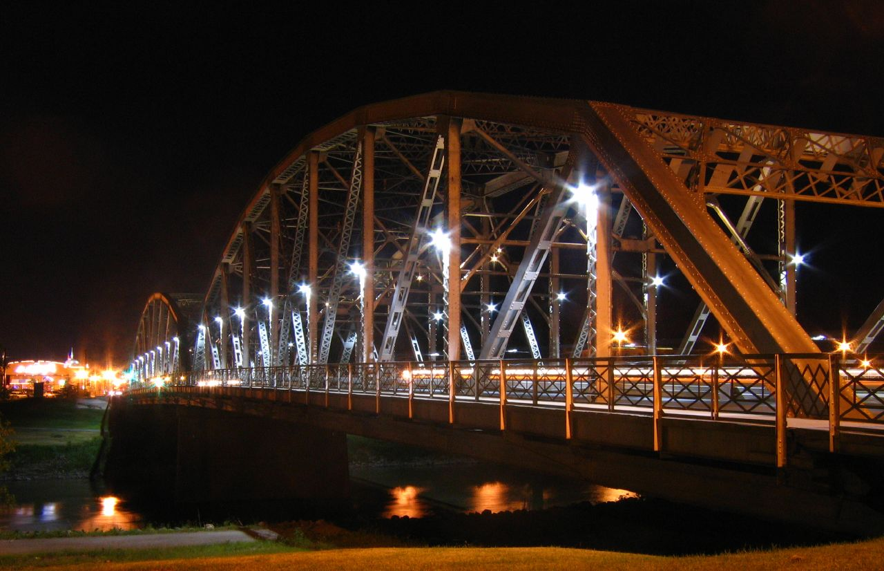 Sorlie Bridge connecting Grand Forks, ND to East Grand Forks, MN